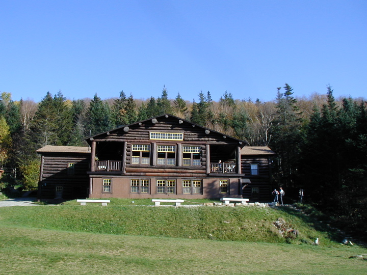 Moosilauke Ravine Lodge in the fall